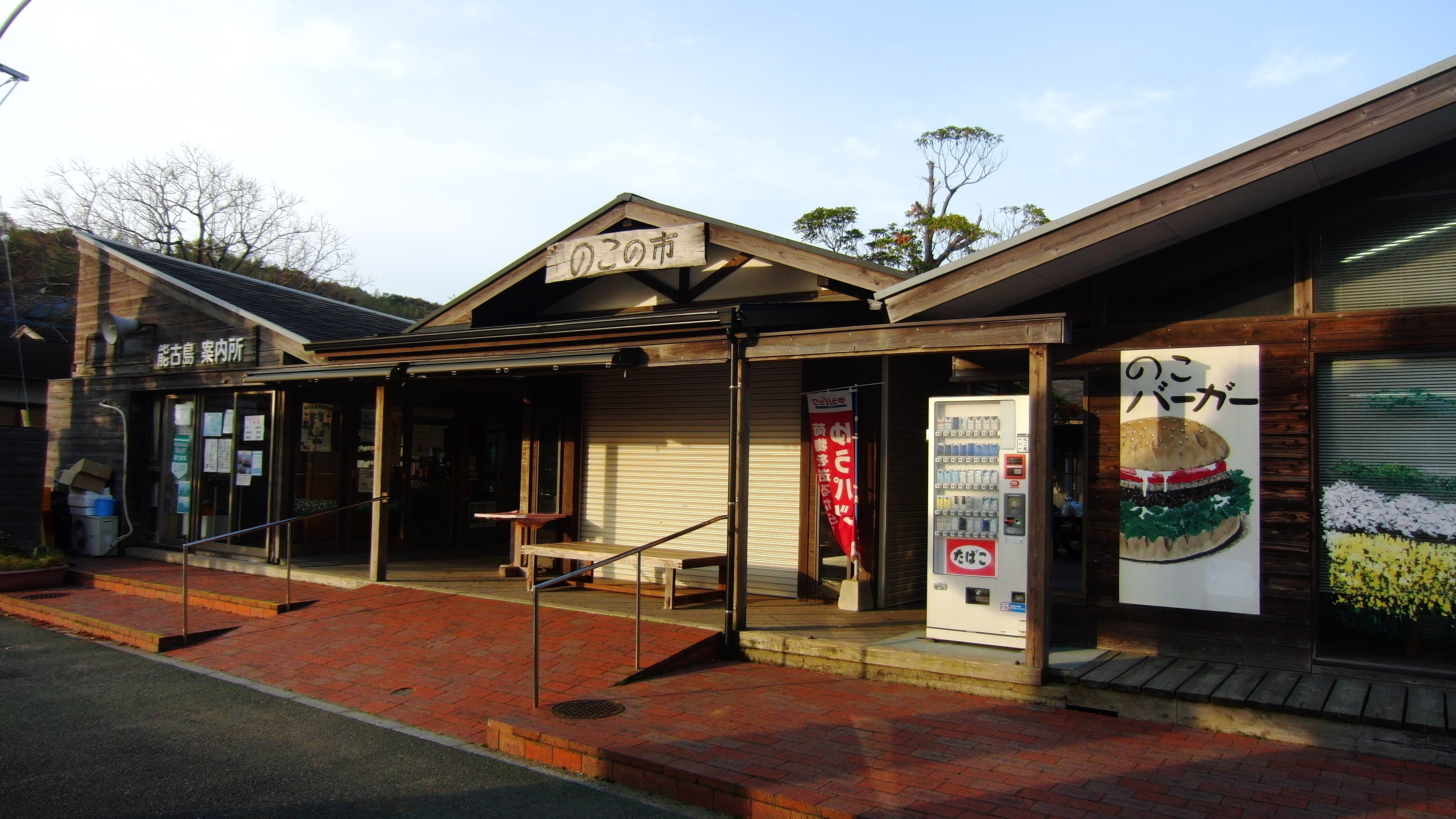 "Nokono-Ichi", Noko Market Tourist Infomation Center, Nokono-shima, Nishi-ku, Fukuoka, Japan.